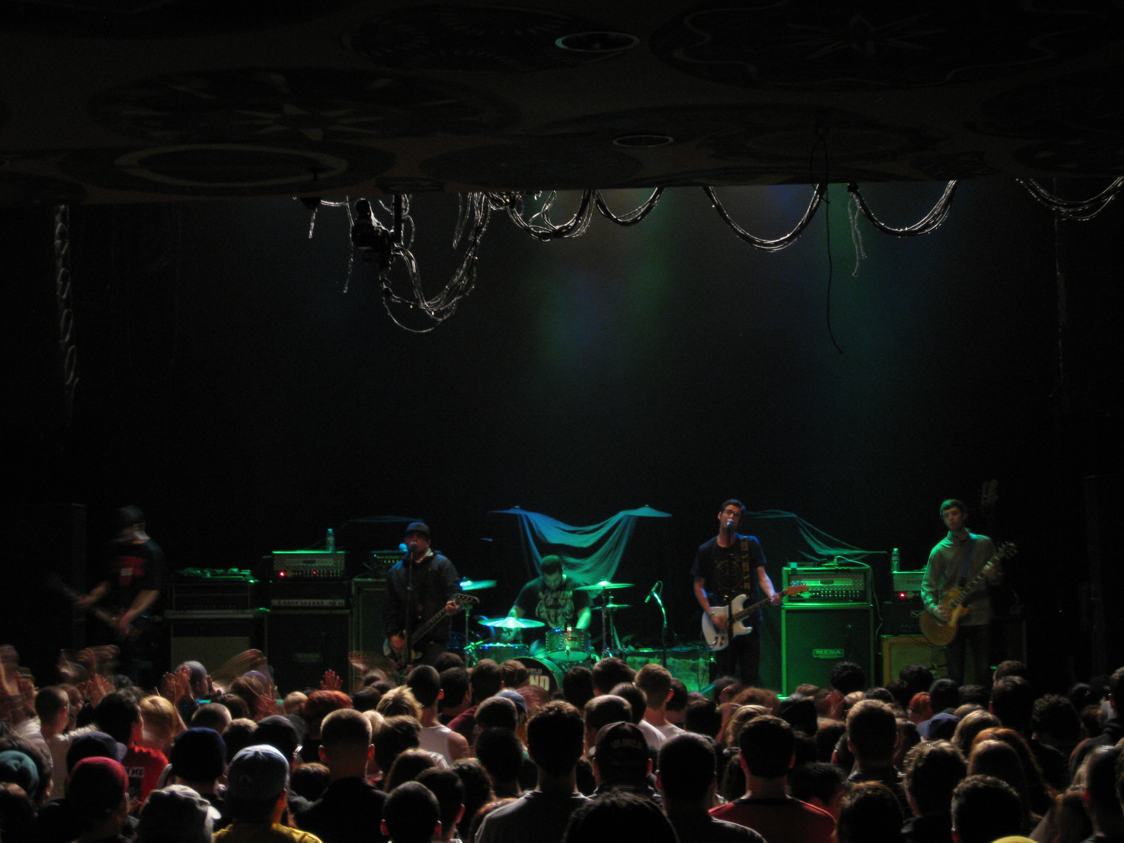 Man Overboard performing November 20, 2011 at the House of Blues in San Diego, California, as part of the "Pop Punk's Not Dead" tour. Left to right: guitarist Wayne Wildrick, singer/bassist Nik Bruzzese, drummer Mike Hrycenko, singer/guitarist Zac Eisenstein, and guitarist Justin Collier.